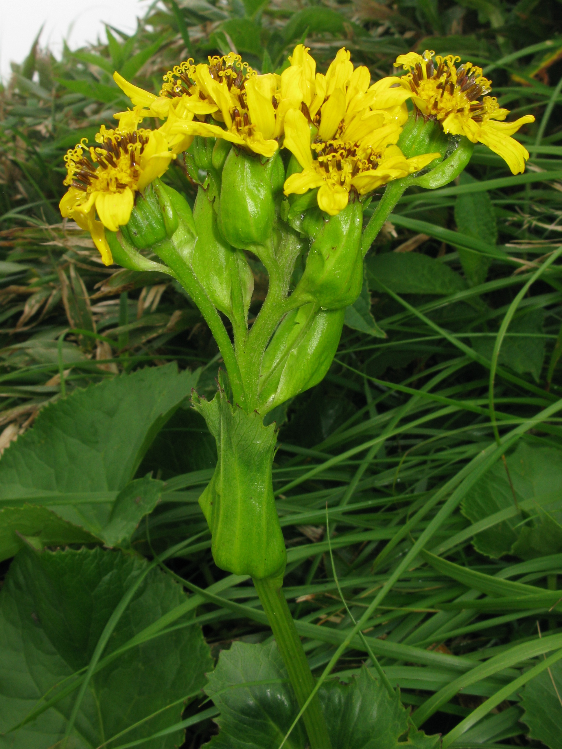 Ligularia hodgsonii, Mount Gassan, Yamagata pref., Japan